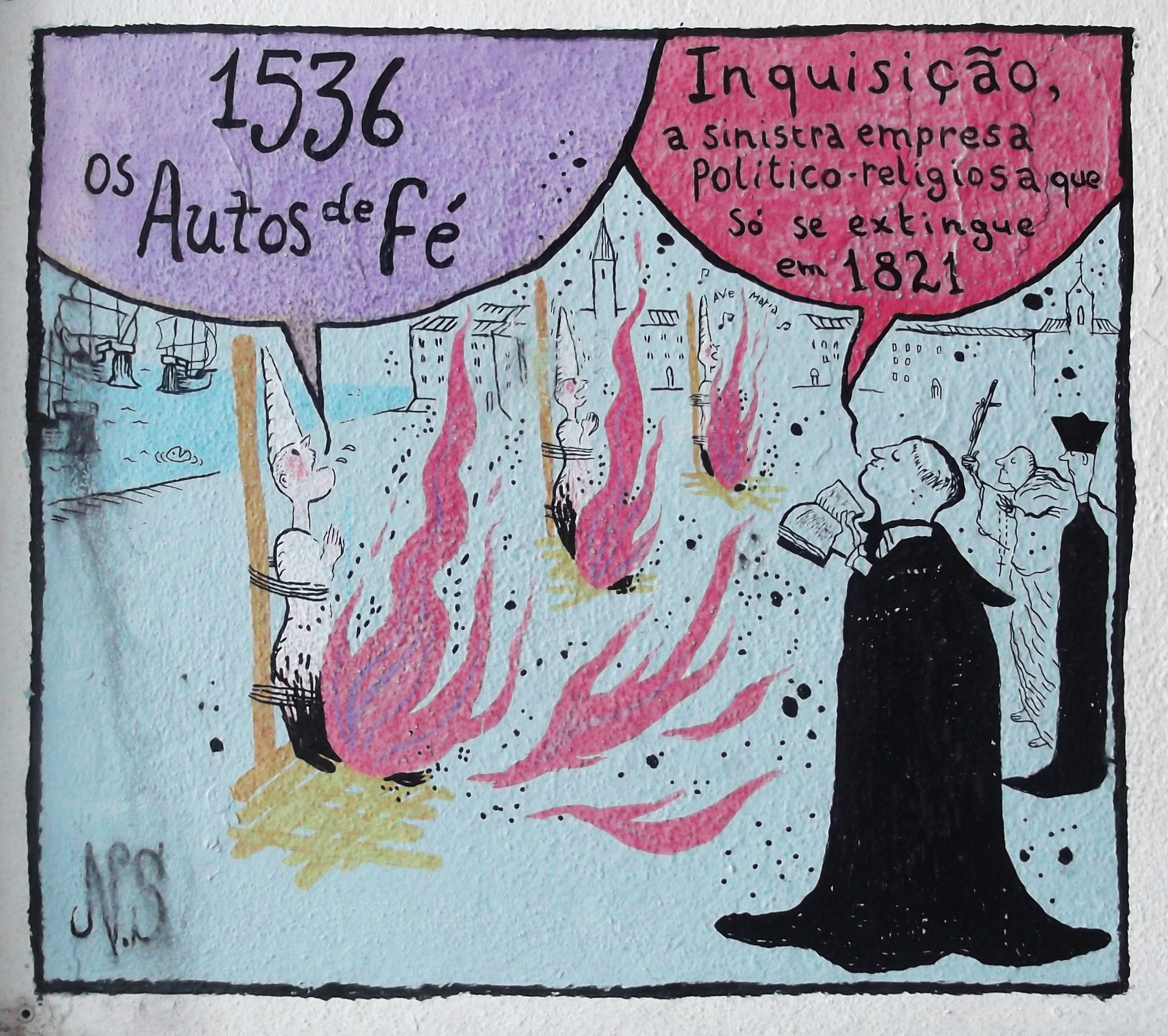 Panel of the "History of Lisbon" mural, by Nuno Saraiva, in Rua Norberto de Araújo, in Lisbon, Portugal.